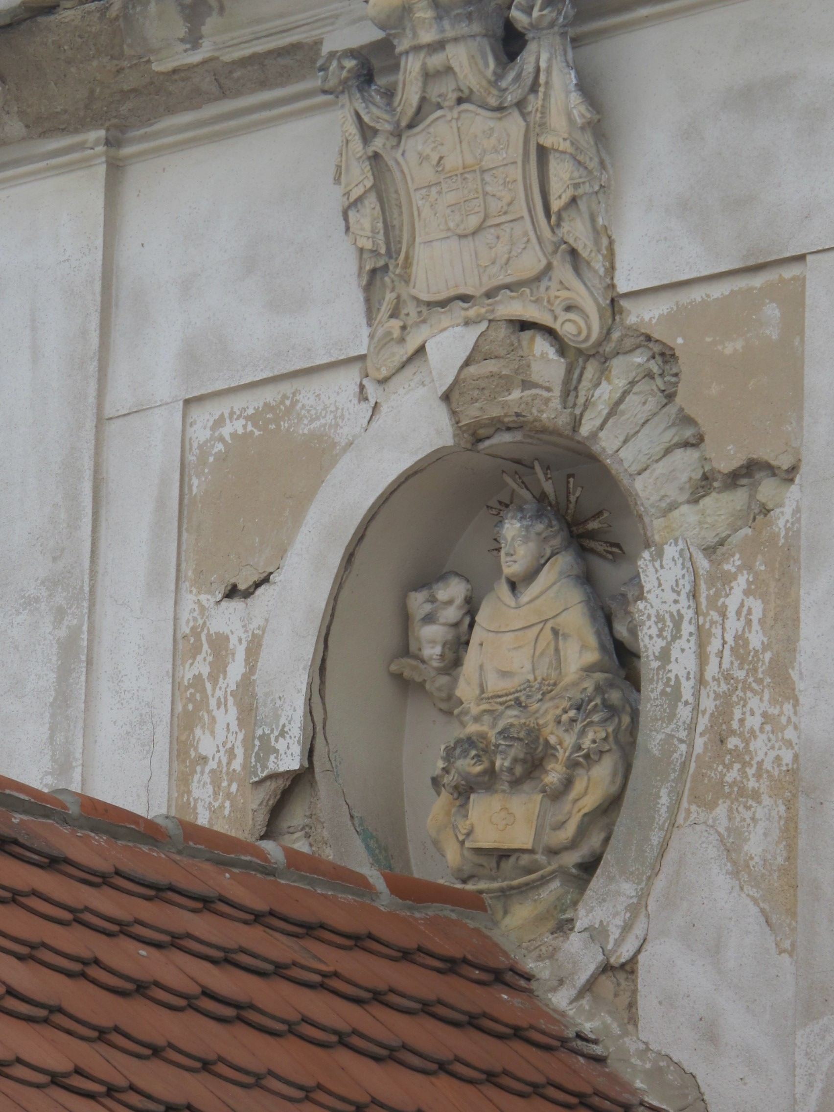 Church of Saint Anthony of Padua (Koštice) - Detail